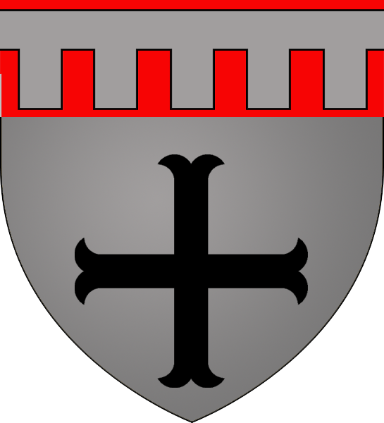 Coat of arms of the municipality of Bech, Luxembourg